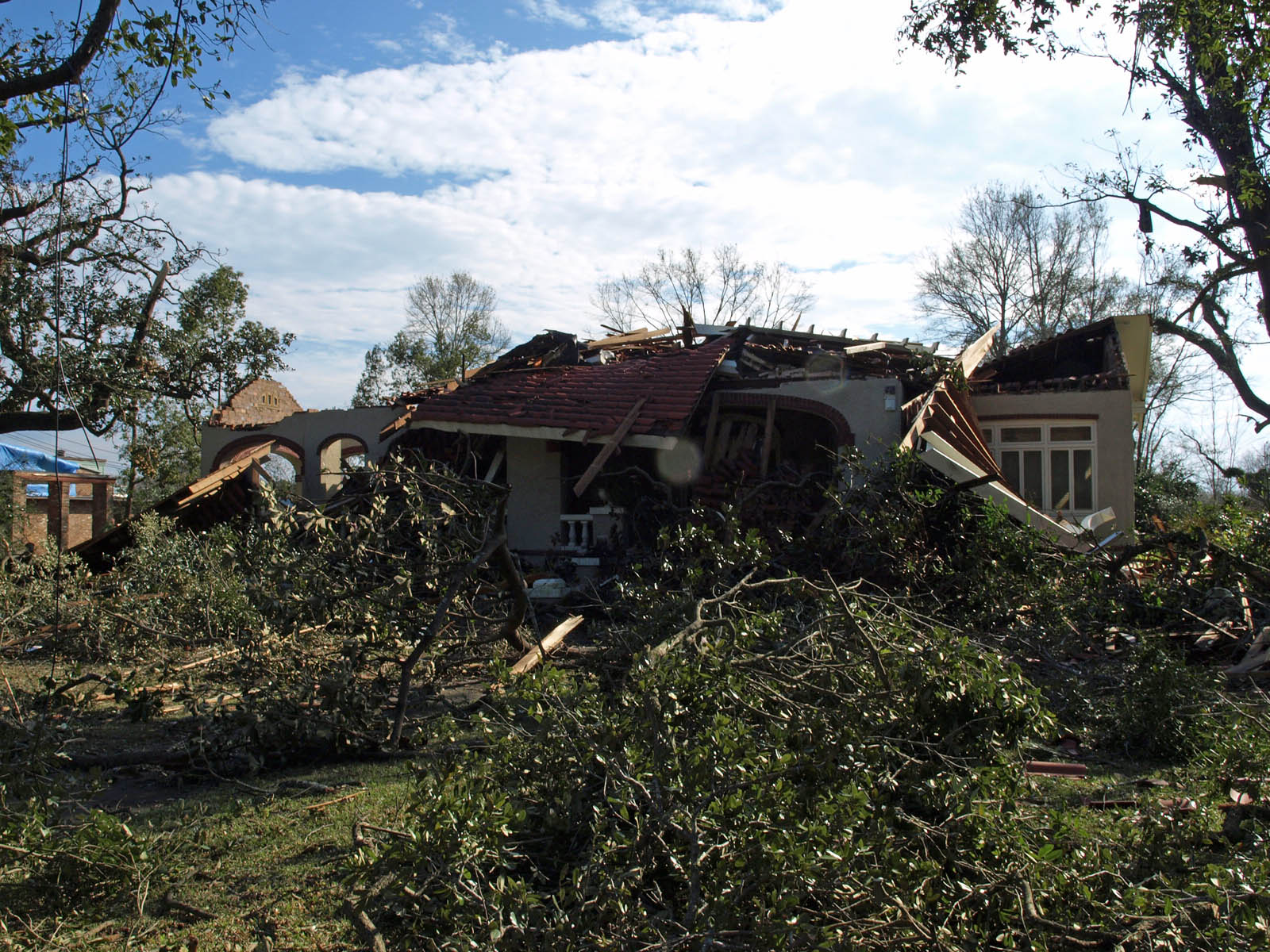 A house on Springhill Avenue in Mobile, Alabama, showing significant damage from the Christmas Day tornado.